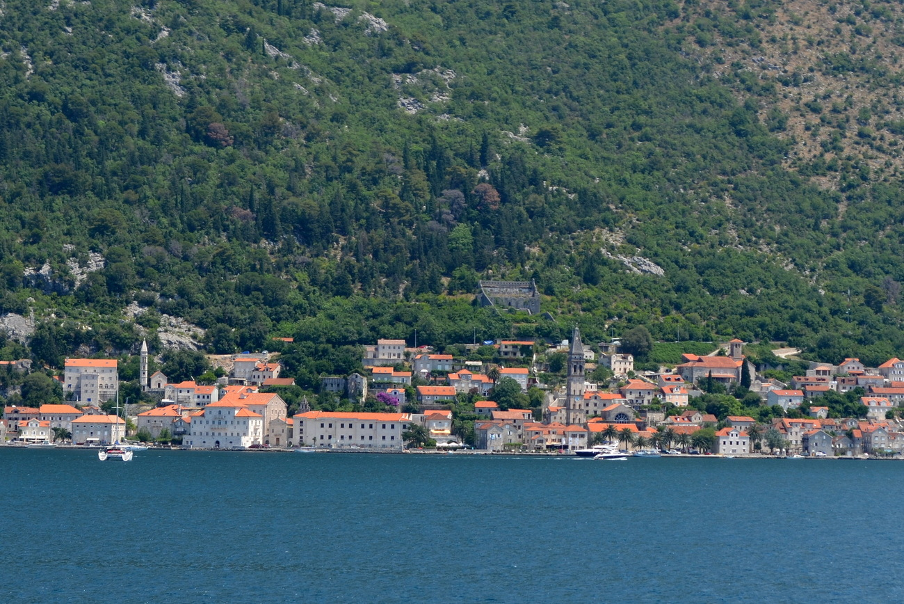 Perast, Montenegro